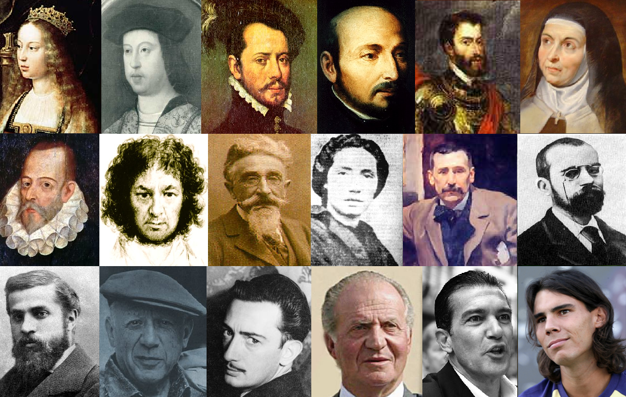 Collage of photos of 18 Spanish known figures - Isabella of Castile, Ferdinand II of Aragon, Hernán Cortés, Ignatius of Loyola, Charles V, Holy Roman Emperor, Teresa of Ávila, Miguel de Cervantes, Francisco Goya, José María de Pereda, Rosalía de Castro, Benito Pérez Galdós, Leopoldo Alas y Ureña, Antoni Gaudí, Pablo Picasso, Salvador Dalí, Juan Carlos I of Spain, Antonio Banderas, Rafael Nadal